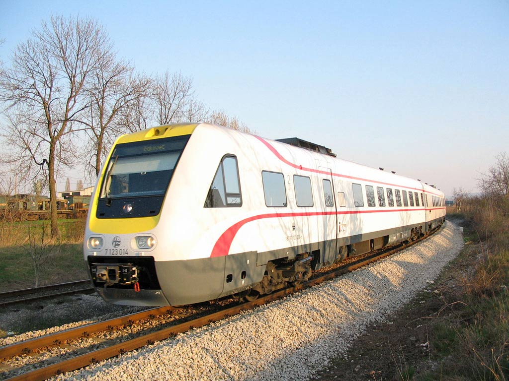 Croatian ICN Tilting Train - picture taken near Varaždin on 4th of March, 2005.